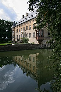 Adendorf castle Weitere Fotos der Wasserburg Adendorf (und anderer Burgen im Drachenfelser Ländchen), die jedoch nicht unter der GNU-Lizenz für freie Dokumentation stehen, gibt es auf Foto von RoFrisch, unter der GFDL in die deutsche Wikipedia [1] hochgeladen: 12:38, 27. Jan 2006 . . RoFrisch (Diskussion) . . 200 x 300 (22411 Byte) (Burg Adendorf, The castle of Adendorf in Wachtberg near Bonn, see also Wachtberg Uploaded by the photographer himself to the German Wikipedia on January 27, 2006 (User RoFrisch) with free GNU-Licence.